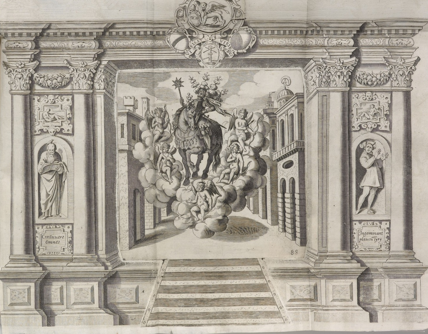 Set design for G. F. Sances's L'Ermiona, performed at the Teatro di Prato della Valle in Padua on 11 April 1636